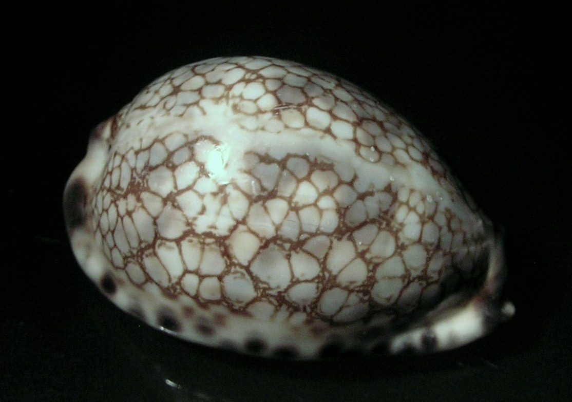 Mauritia histrio westralis Iredale, 1935, a cowry from the family Cypraeidae; Australia